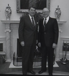 John H. Reed in Oval Office with Ronald Reagan